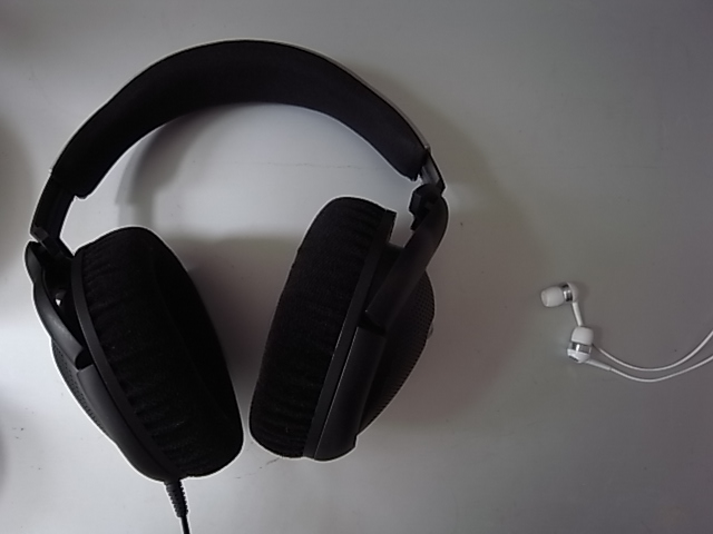 two kinds of headphones